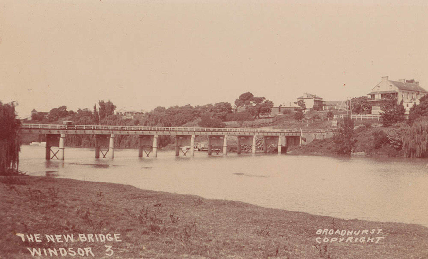 963. The New Bridge, Windsor